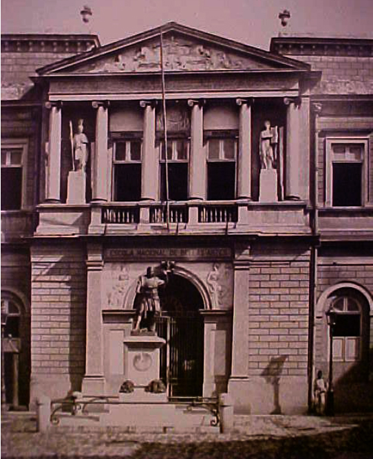 Facade of the former Imperial Academy of Fine Arts (Academia Imperial de Belas Artes) in Rio de Janeiro, Brazil. This building was demolished in 1938.